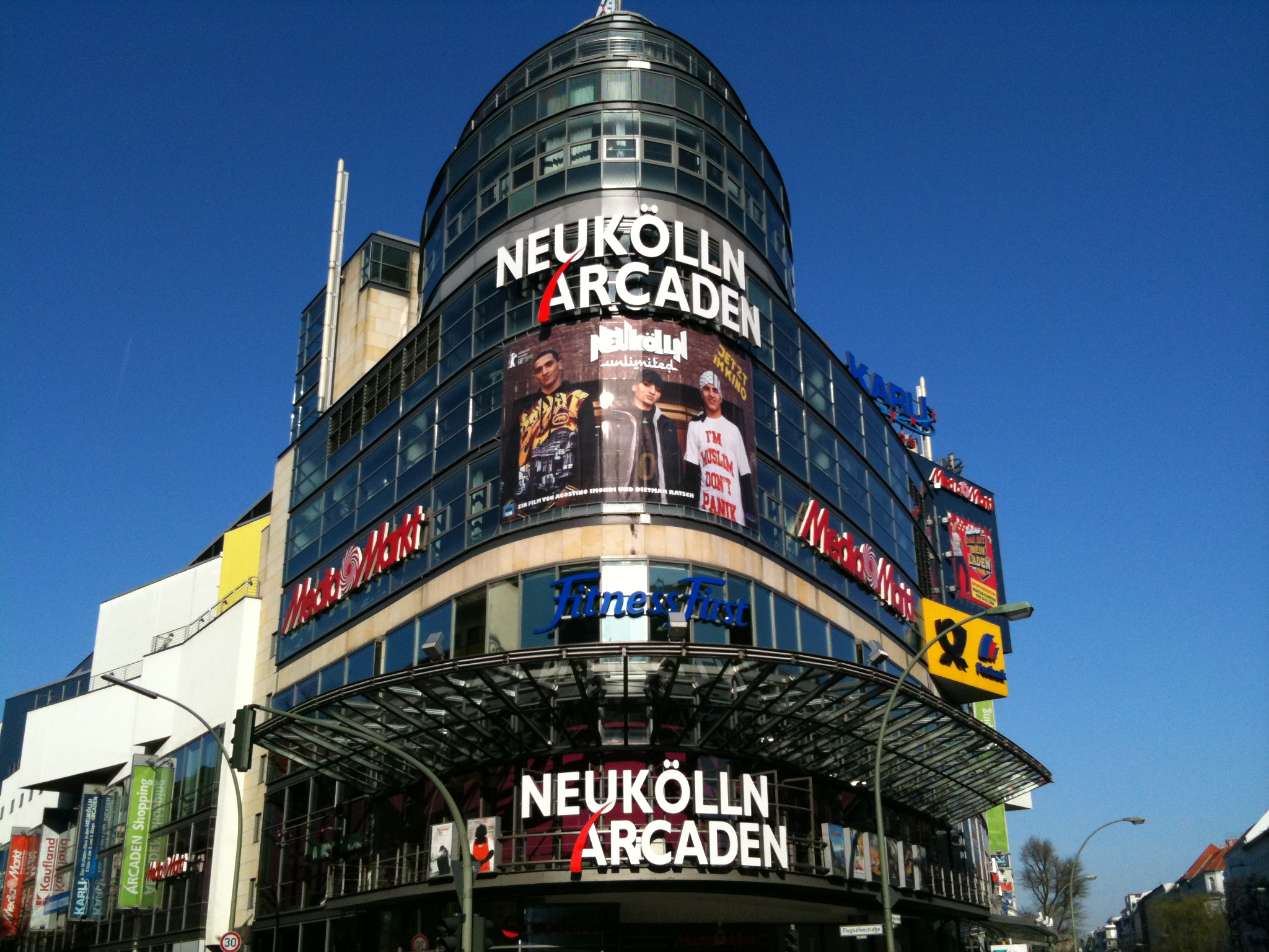 Movie poster of "Neukölln Unlimited" hanging from the facade of a shopping centre in Berlin-Neukölln.